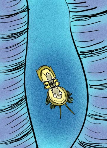 Reconstruction of the agnostid trilobite, Han solo, of Middle Ordovician China